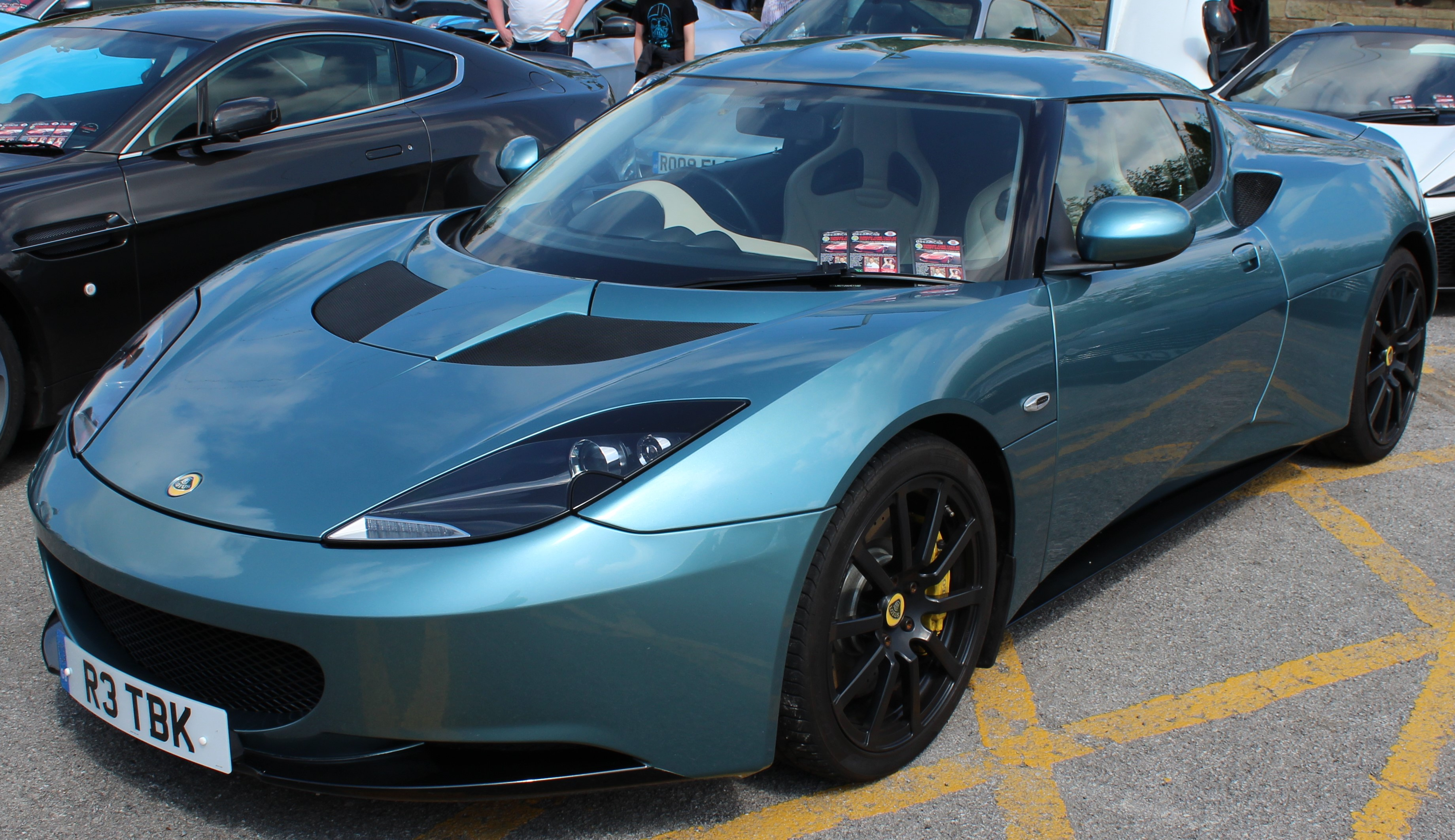 Nelson and Colne Collage Pageant Of Power Event May 29th 2016